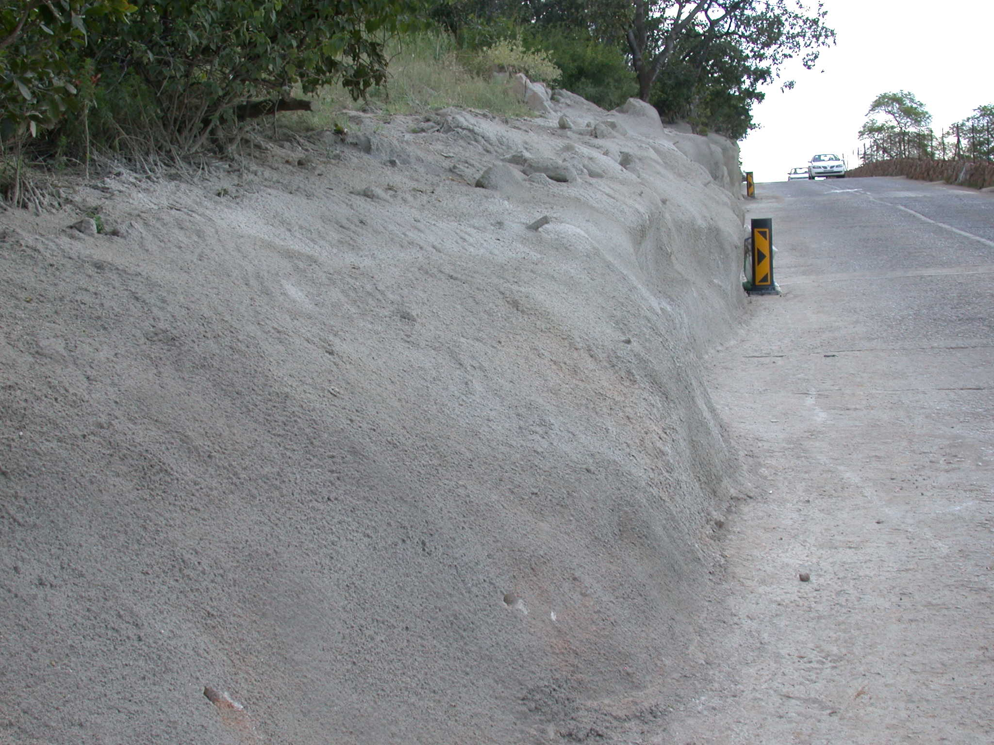 Gunite (cement) on Tom Jenkins Drive in Pretoria